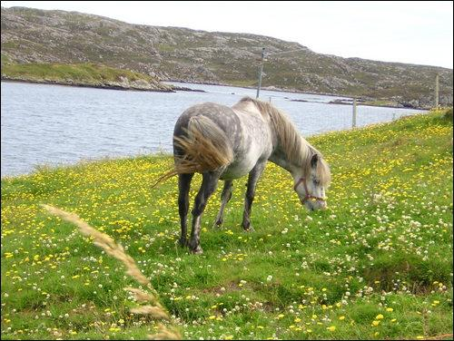 eriskay pony aged nine on Isle of Lewis